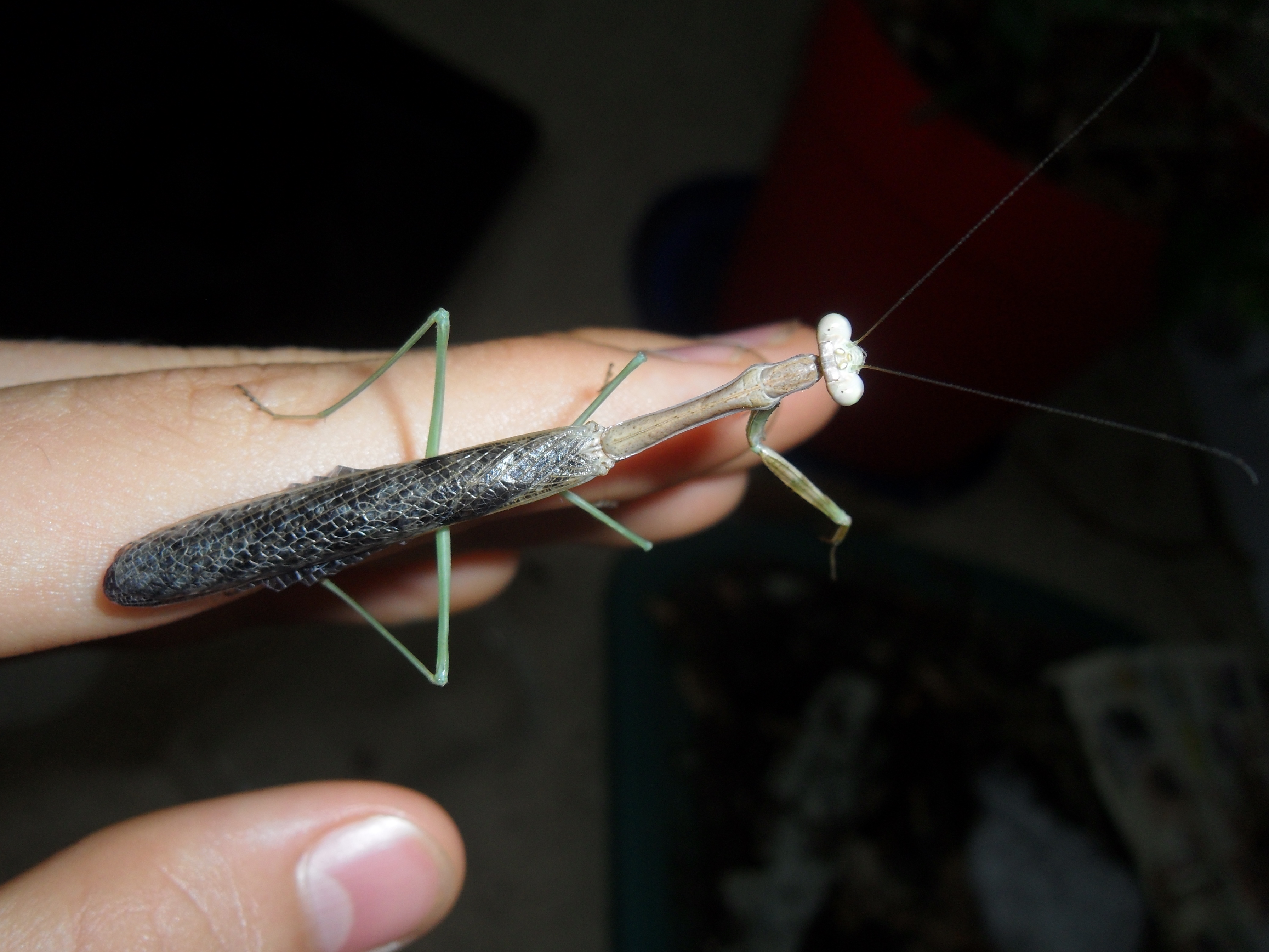 Adult male Carolina mantis on my hand.